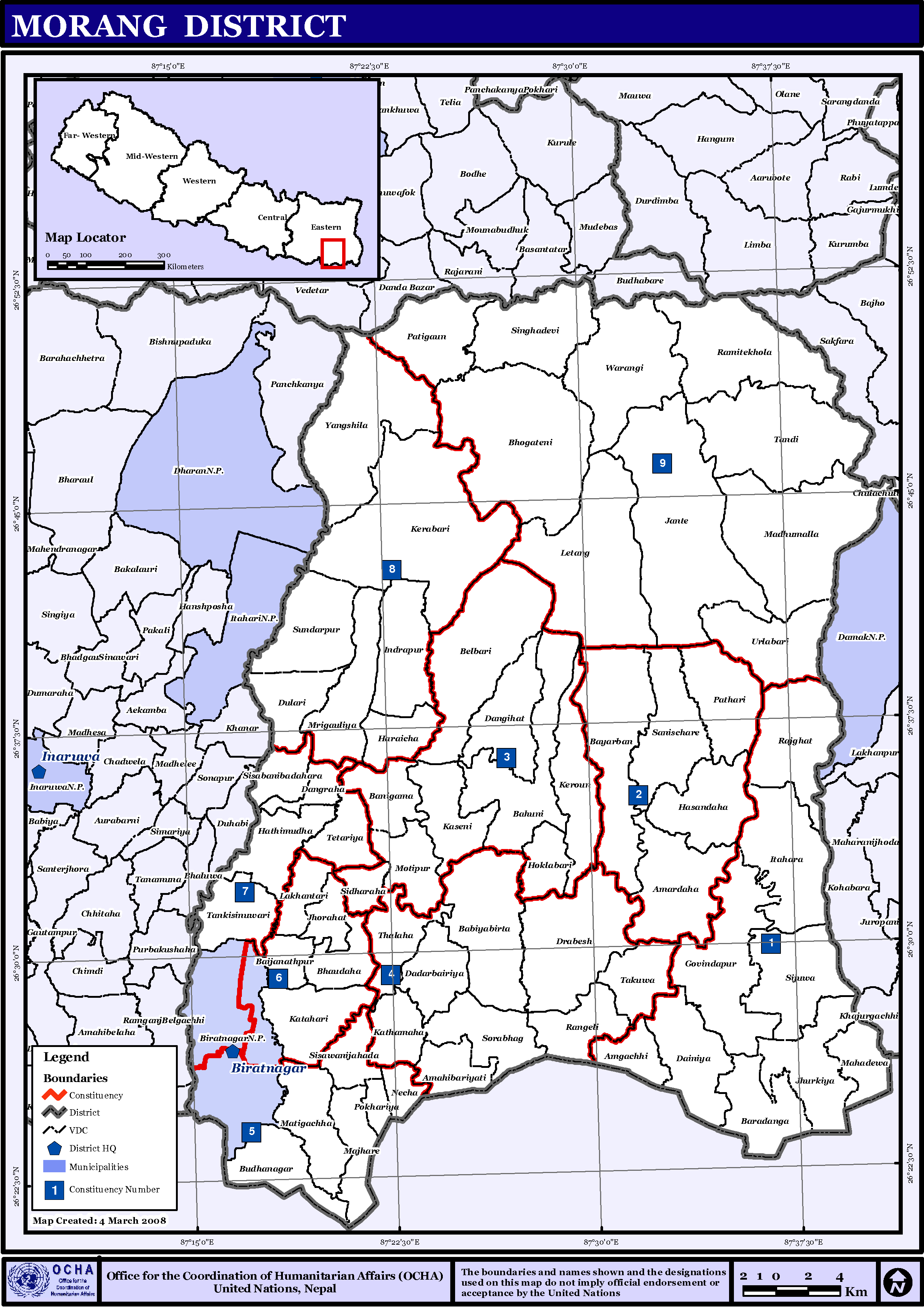 Map displaying Village Development Committees in Morang District, Nepal